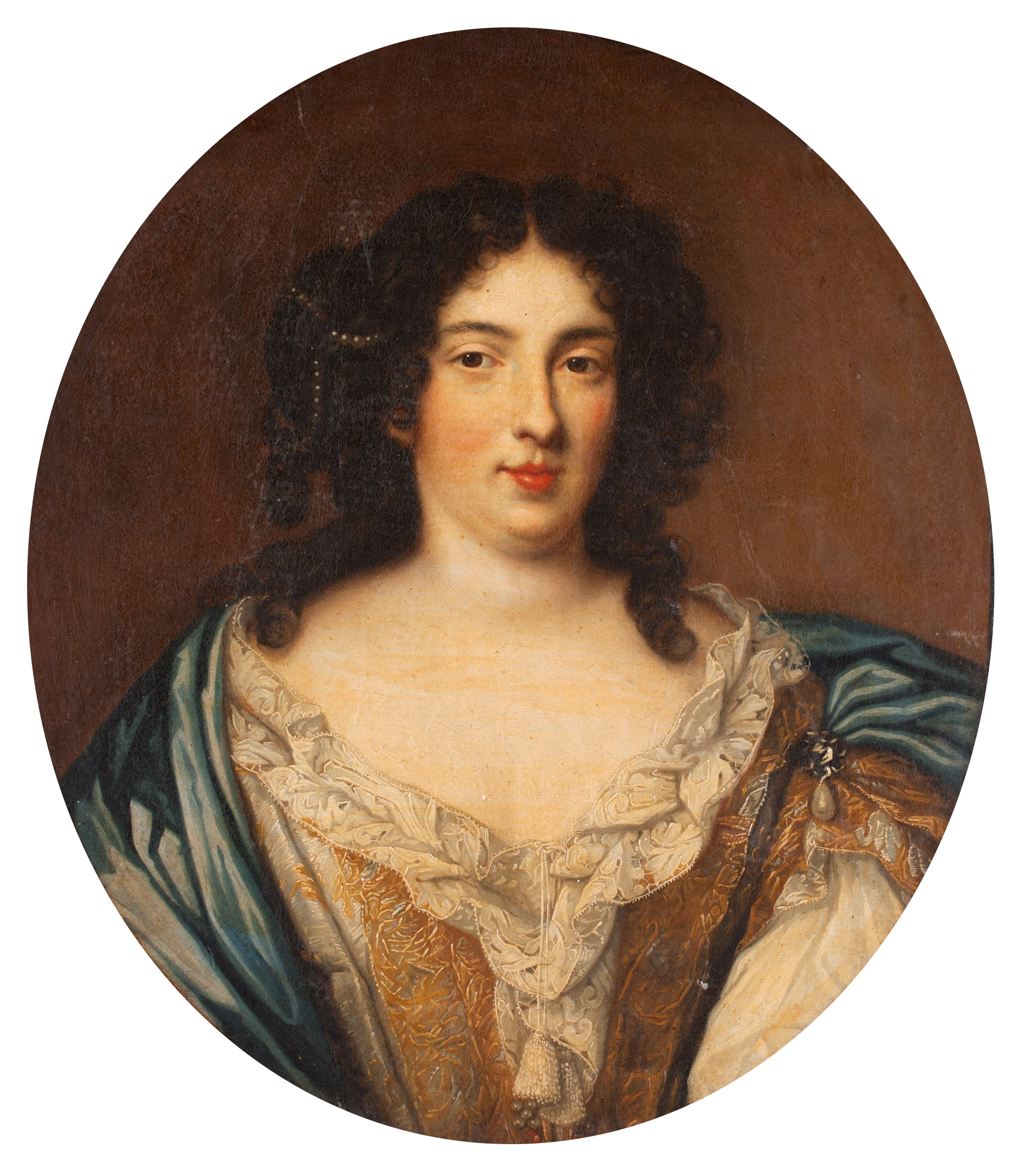 Claude de Vin des Œillets (Mademoiselle des Oeillets, 1637-1687), mistress of Louis XIV of France